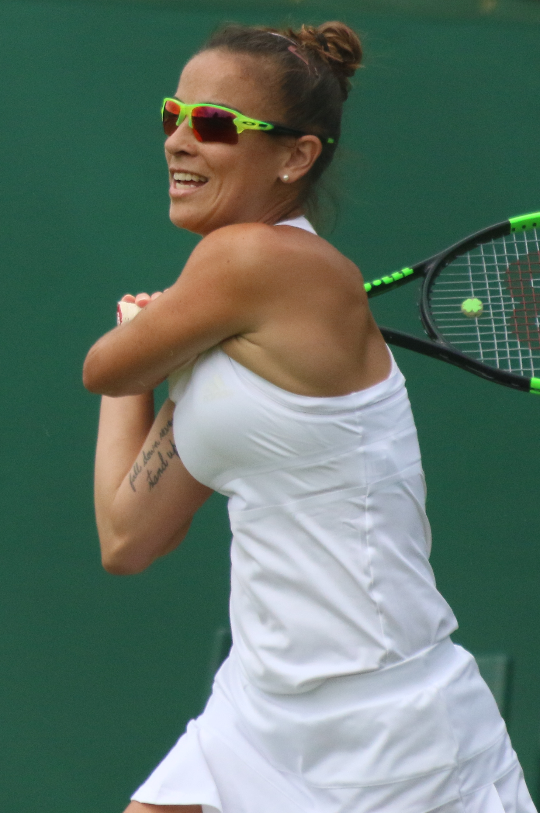 2019 Wimbledon Qualifying Tournament.